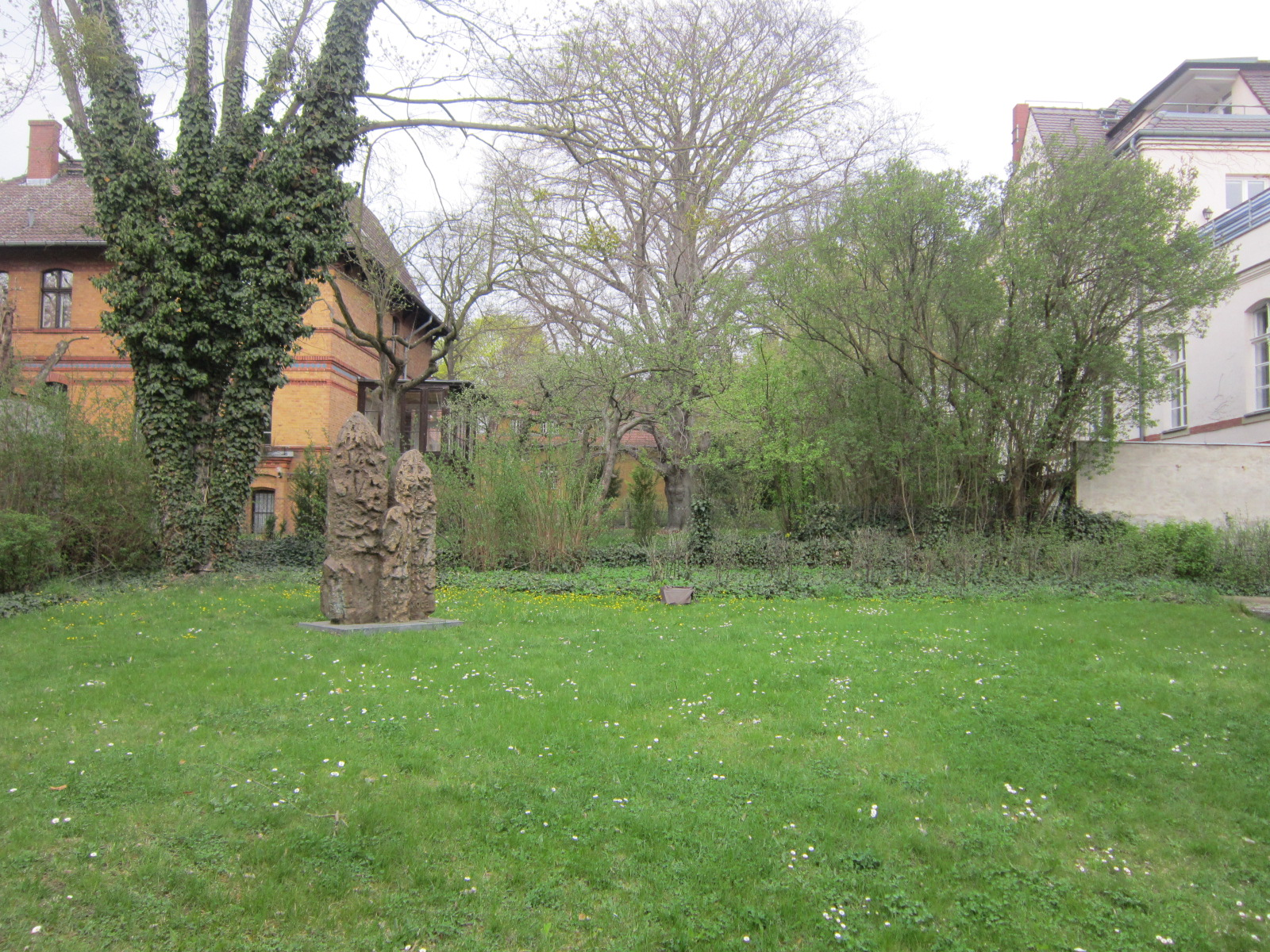 Khojaly Massacre Memorial (Berlin)